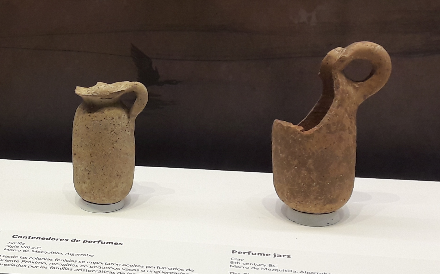 Perfume jars. Clay. 8th century BC. From Morro de Mezquitilla, Algarrobo. Museo de Málaga, Spain.